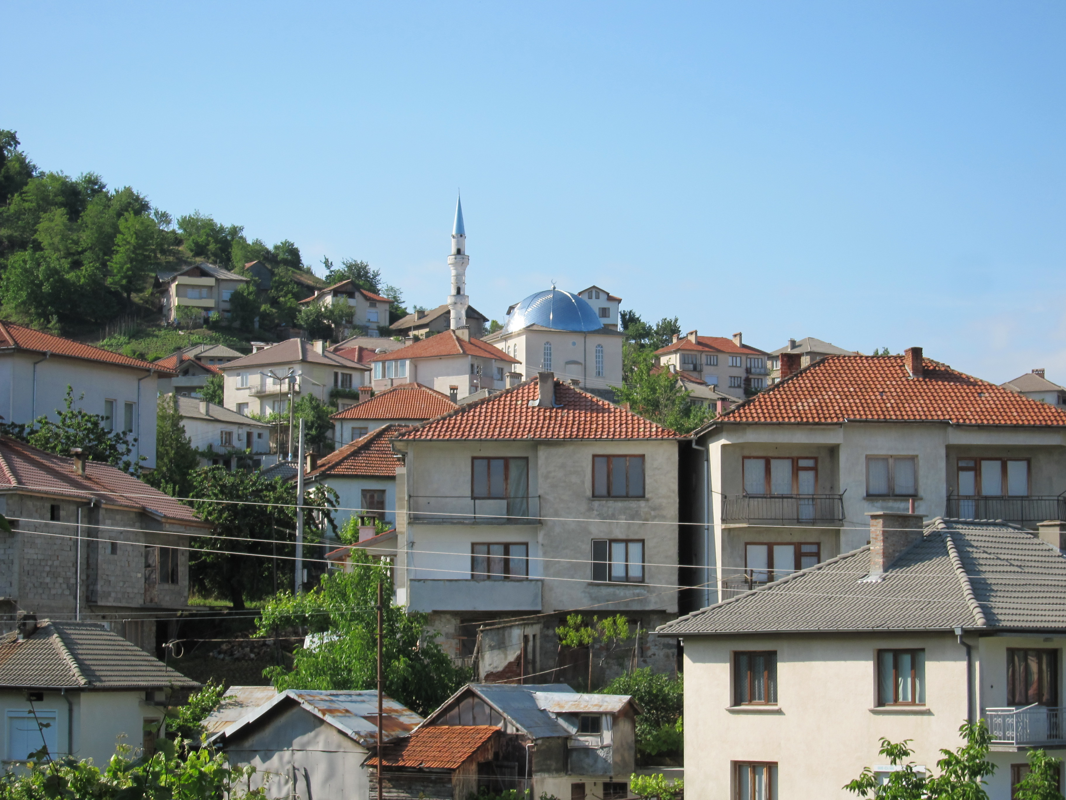 A mosque serving Bulgarian Muslims in the Southeastern Rhodope mountains (Stratsevo, Bulgaria, Zlatograd municipality, Smolyan province)